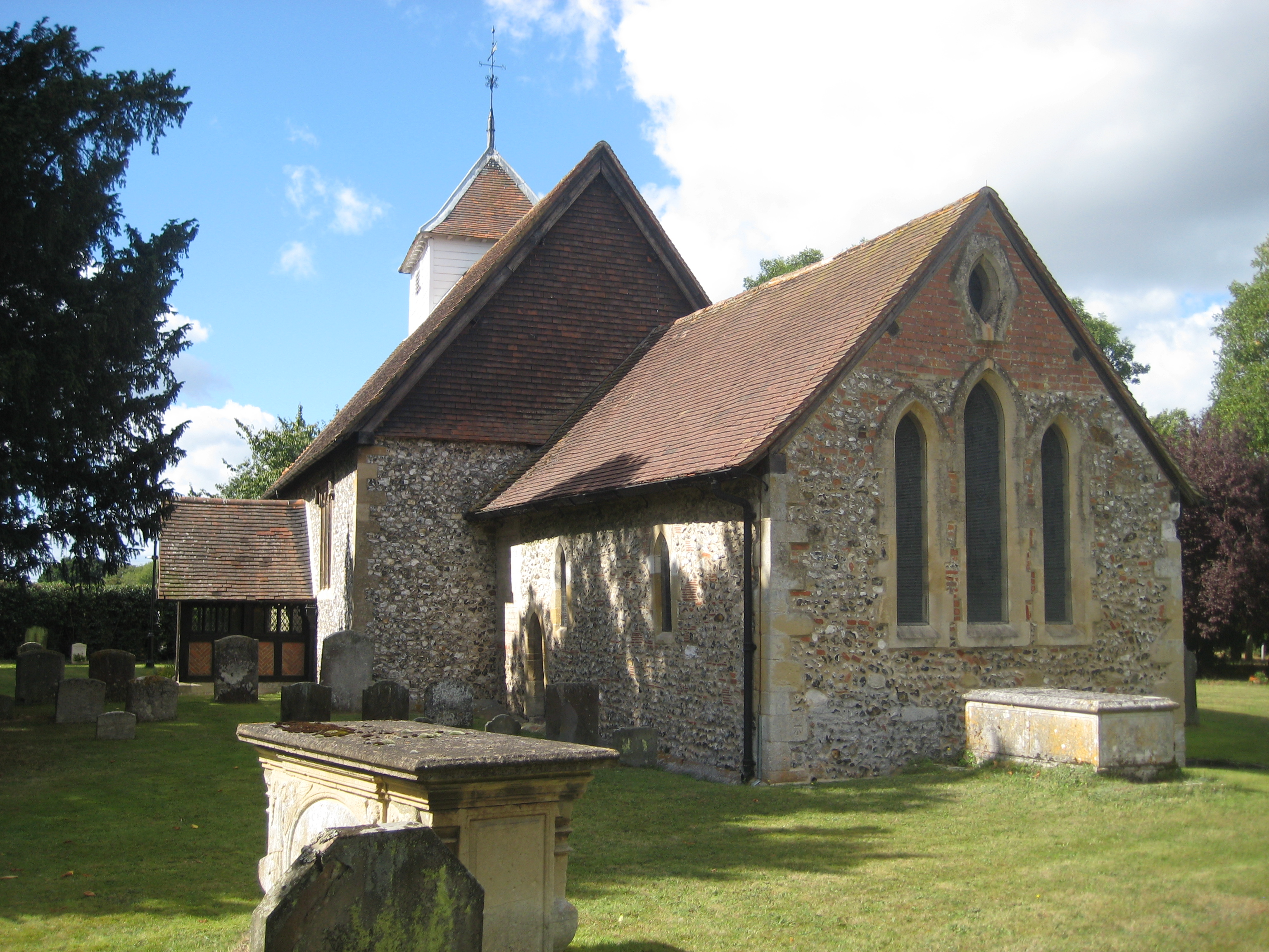 St Mary's Church, Sulhamstead Abbots, Berkshire. View from the east.